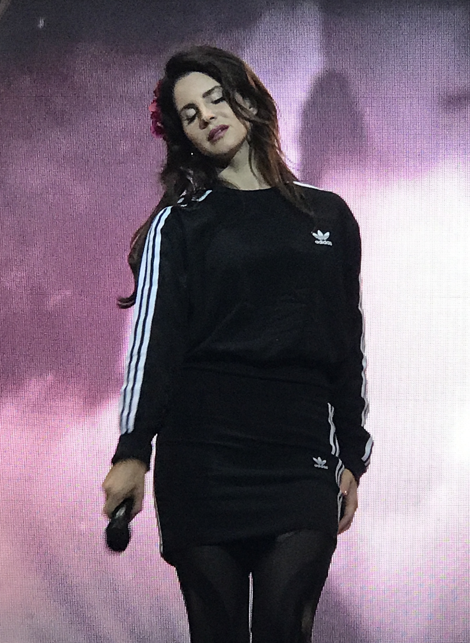 Lana Del Rey performing during the Flow Festival 2017 (Helsinki, Finland).